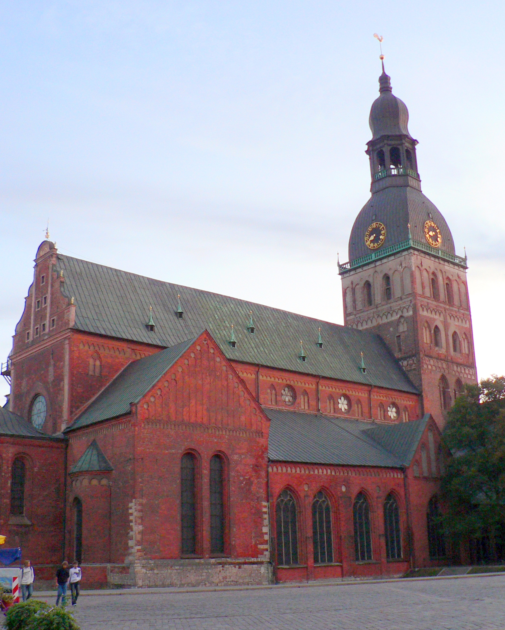 Riga Cathedral, Latvia.